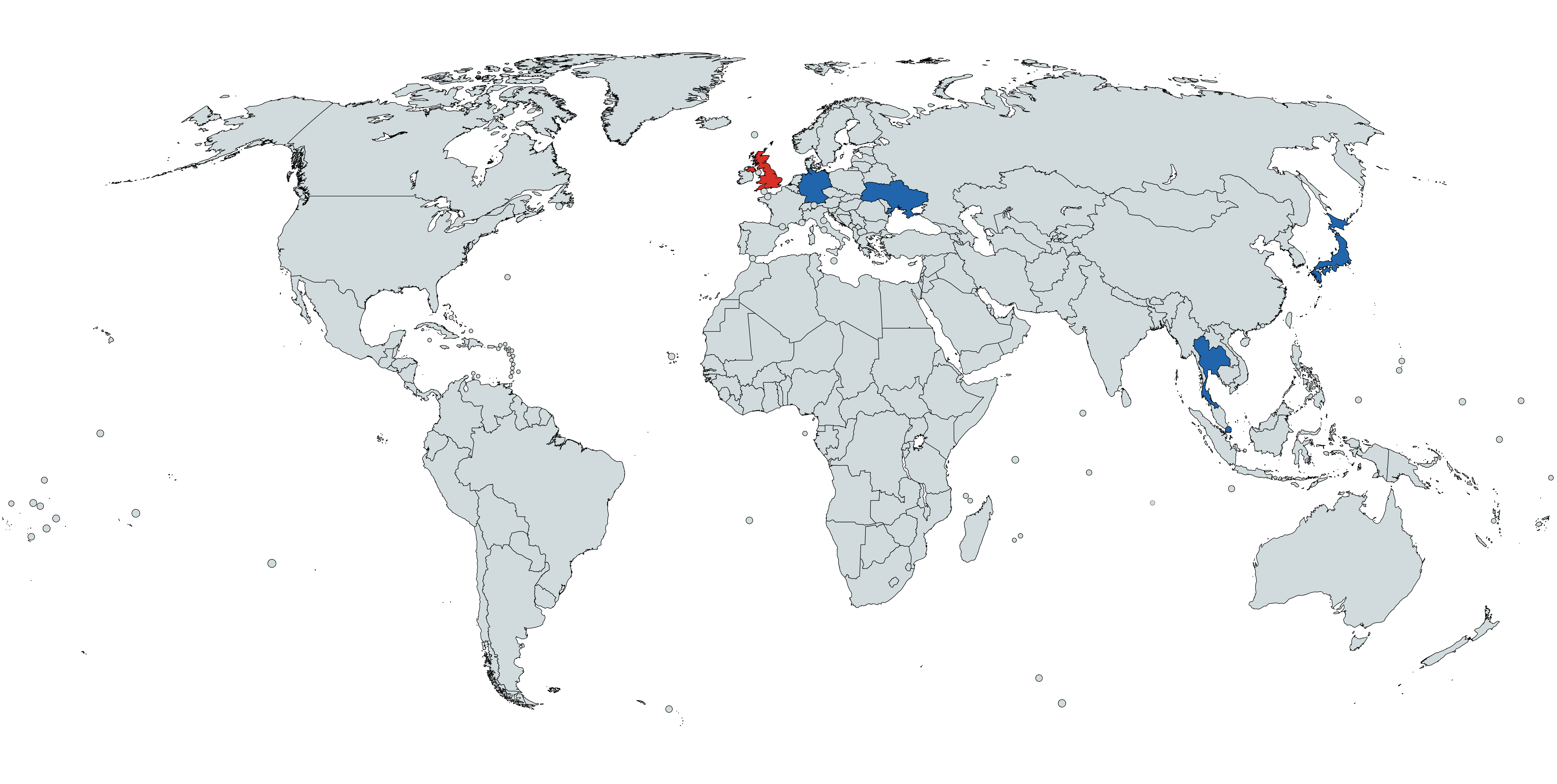 Map with Bronco operators in blue